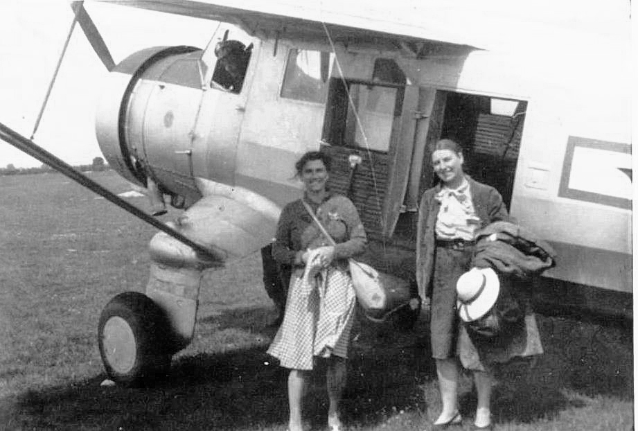 Former Dachau prisoners L.R. Nel Niemandsverdriet and Rennie de Vries-van Ommen going home from Muenich Airport, May 20 1945